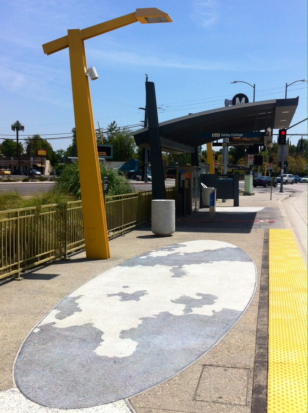 The ticket machine, gate, and the signage of the Valley College Station.